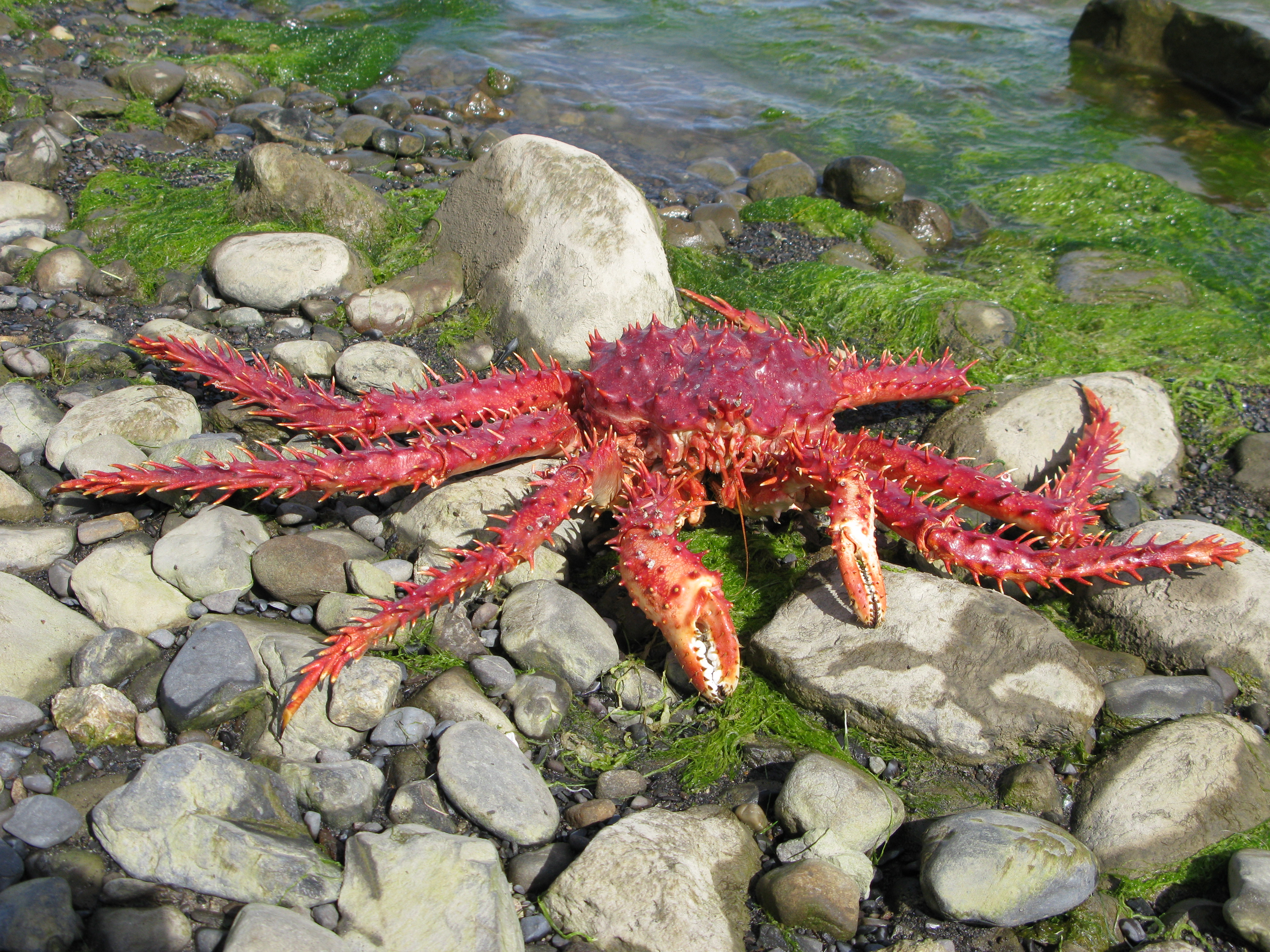 Southern King (Lithodes santolla) crab at the time this picture was taken the crab was dead- Puerto Natales, Chile